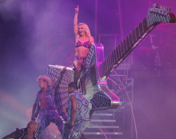 Spears